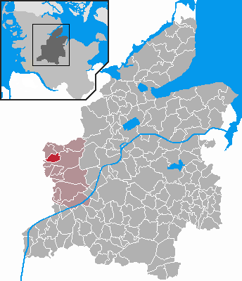 Locator maps of municipalities in Schleswig-Holstein - District Rendsburg-Eckernförde